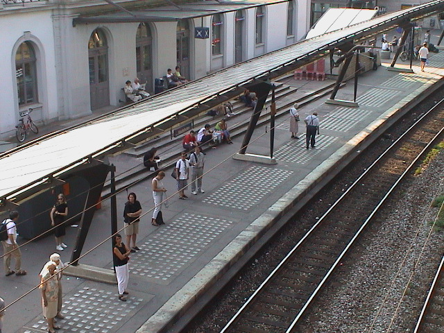 Station Stadelhofen in Zürich, Switzerland